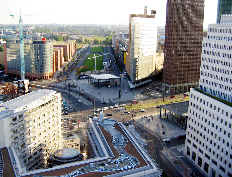 Potsdamer Platz, Berlin (bird's eye view from balloon)